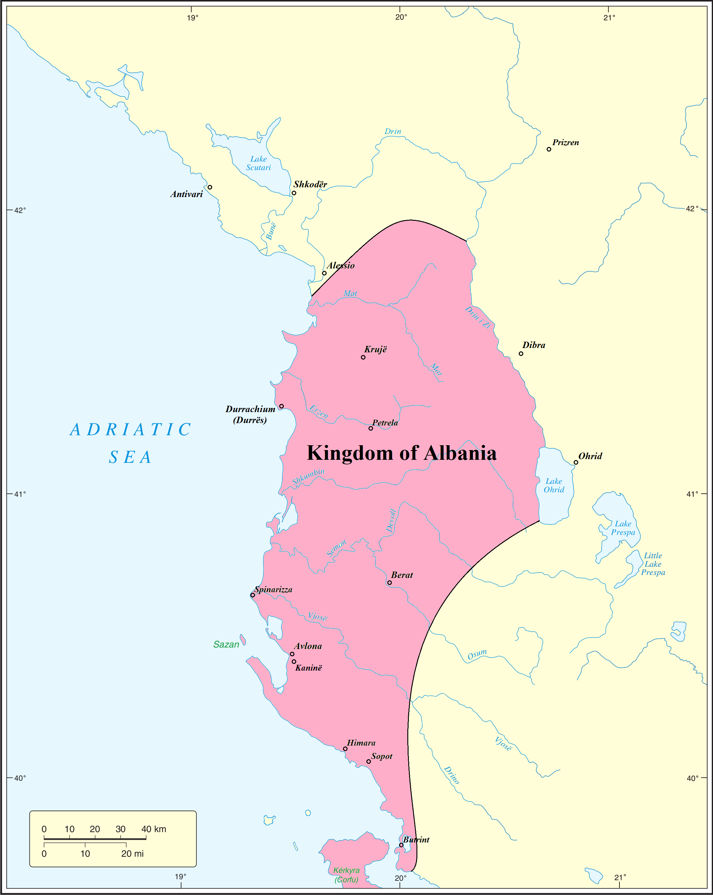 The maximum extension of Kingdom of Albania. This work is based on different books such as "Historia e popullit shqiptar në katër vëllime" Anamali, Skënder and Prifti, Kristaq. Botimet Toena, 2002, ISBN 9992716223; "The Papacy and the Levant, 1204-1571: The thirteenth and fourteenth centuries" Author Kenneth Meyer Setton Edition reprint Publisher American Philosophical Society, 1976 ISBN 0871691140, 9780871691149; "The Despotate of Epiros 1267-1479: A Contribution to the History of Greece in the Middle Ages" Author Donald M. Nicol Publisher Cambridge University Press, 2010 ISBN 0521130891, 9780521130899